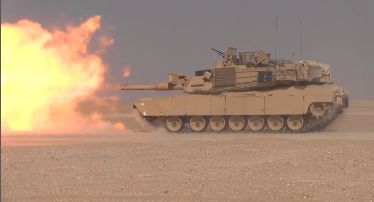 An M1A2 System Enhancement Package V2 Abrams Main Battle Tank fires its 120 mm main gun while on the move during a Table VI tank gunnery at the Udairi Range Complex, near Camp Buehring, Kuwait, Thursday. Soldiers from 1st Battalion, 15th Infantry Regiment, 3rd Armored Brigade Combat Team, 3rd Infantry Division, are scheduled to begin training with their Kuwaiti partners in the near future.